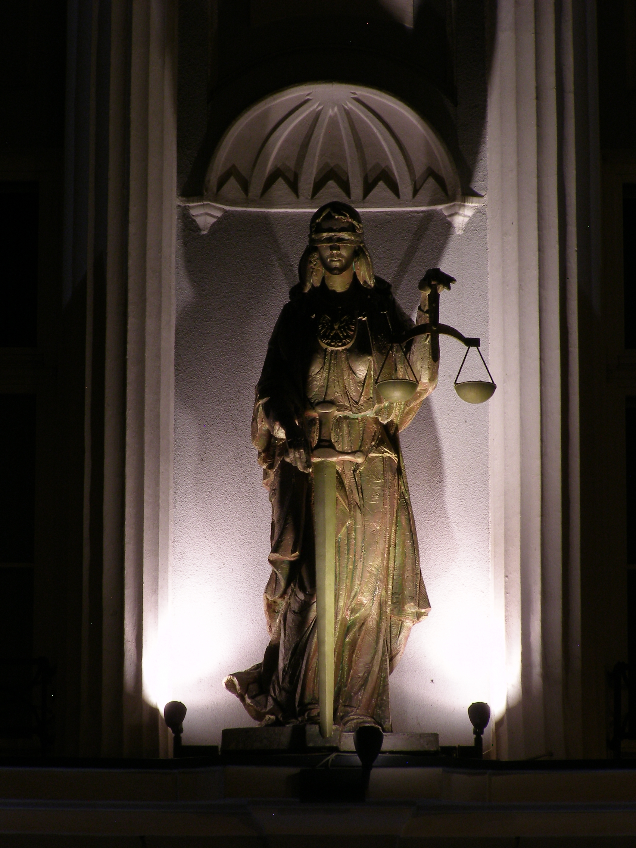 Tarnów - Themis statue at the District Courthouse building